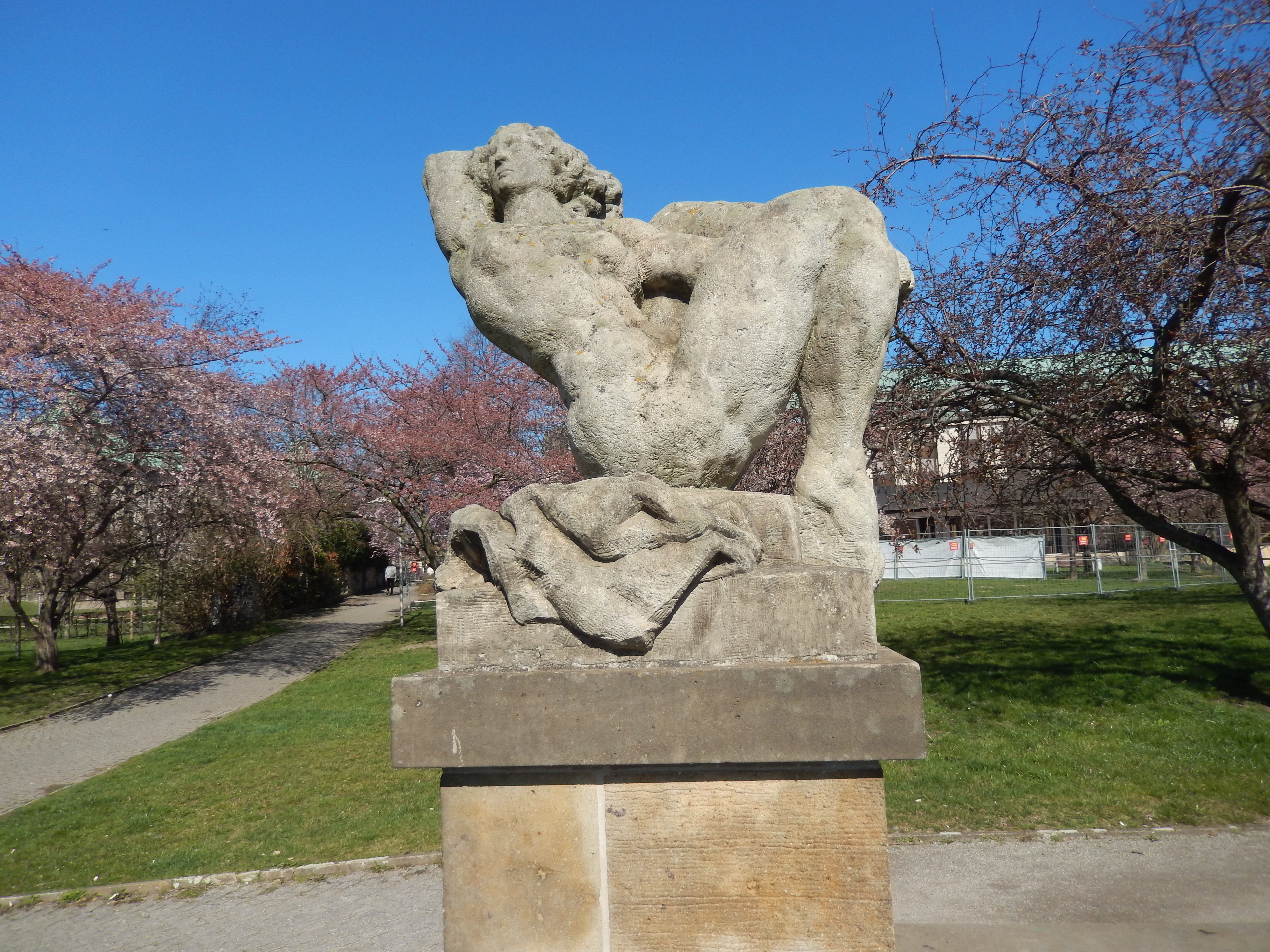 Dresden: Miroslav Klimes' seated on the Neustädter Elbufer in Dresden